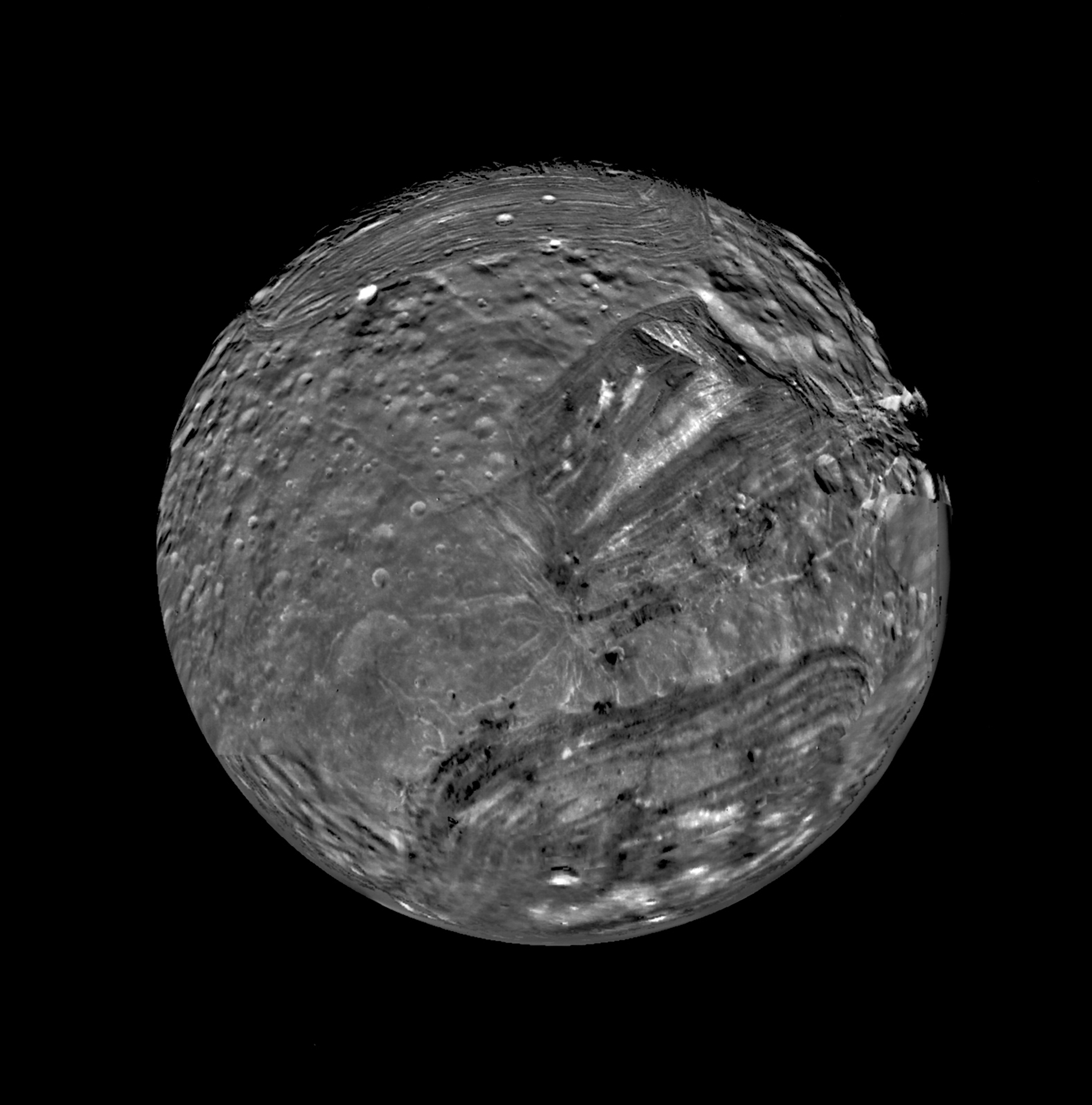 Flying by in early 1986, Voyager 2 captured the pictures for this image mosaic of Miranda, which enabled scientists to study this moon of Uranus in much greater detail than ever before. First observed in 1948 by Gerard Peter Kuiper, Miranda is named for the daughter of the wily Prospero in Shakespeare's "The Tempest." It was the fifth satellite of Uranus to be discovered, and is the planet's innermost large moon. It was necessary for Voyager 2 to pass by Miranda, not for scientific reasons, but simply to obtain the gravity assist it needed from Uranus to go on to Neptune. Before Voyager, Miranda was largely ignored as it is not the largest moon and did not seem to have any other outstanding qualities. Fortunately, however, Voyager passed close enough to Miranda to provide scientists with fascinating photographs that captivated astronomers. About half ice and half rock, Miranda's surface has terraced layers and other features that indicate both older and younger surfaces coexist. Scientists have proposed two explanations for the the mixing of ancient and recent surfaces. One theory is that Miranda could have been shattered and then reassembled as many as five times. Another hypothesis is that upwellings of partly melted ice created new surfaces.